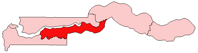 Map of The Gambia showing Lower River Division; created with the GIMP. Made by User:Acntx